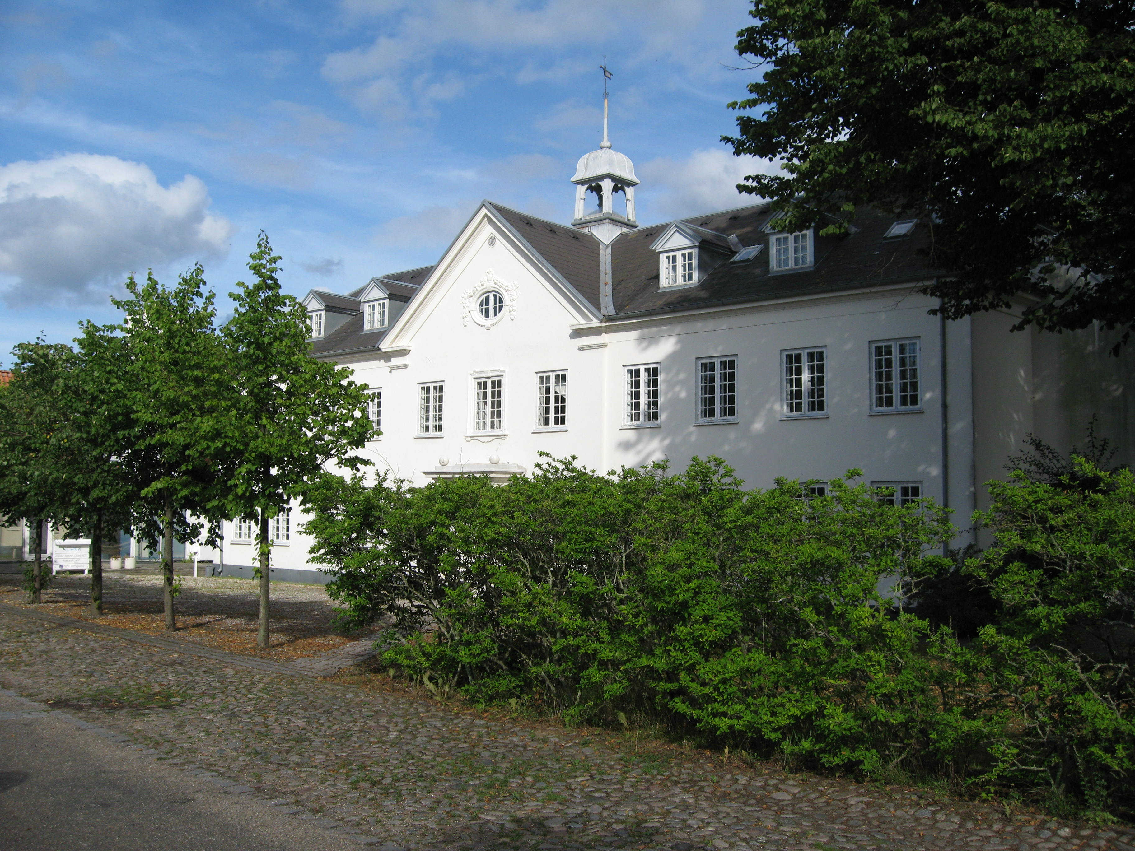 Slettenhus, formerly Hotel Gylfe, in Sletten, a village near Humlebæk in Zealand, Denmark.